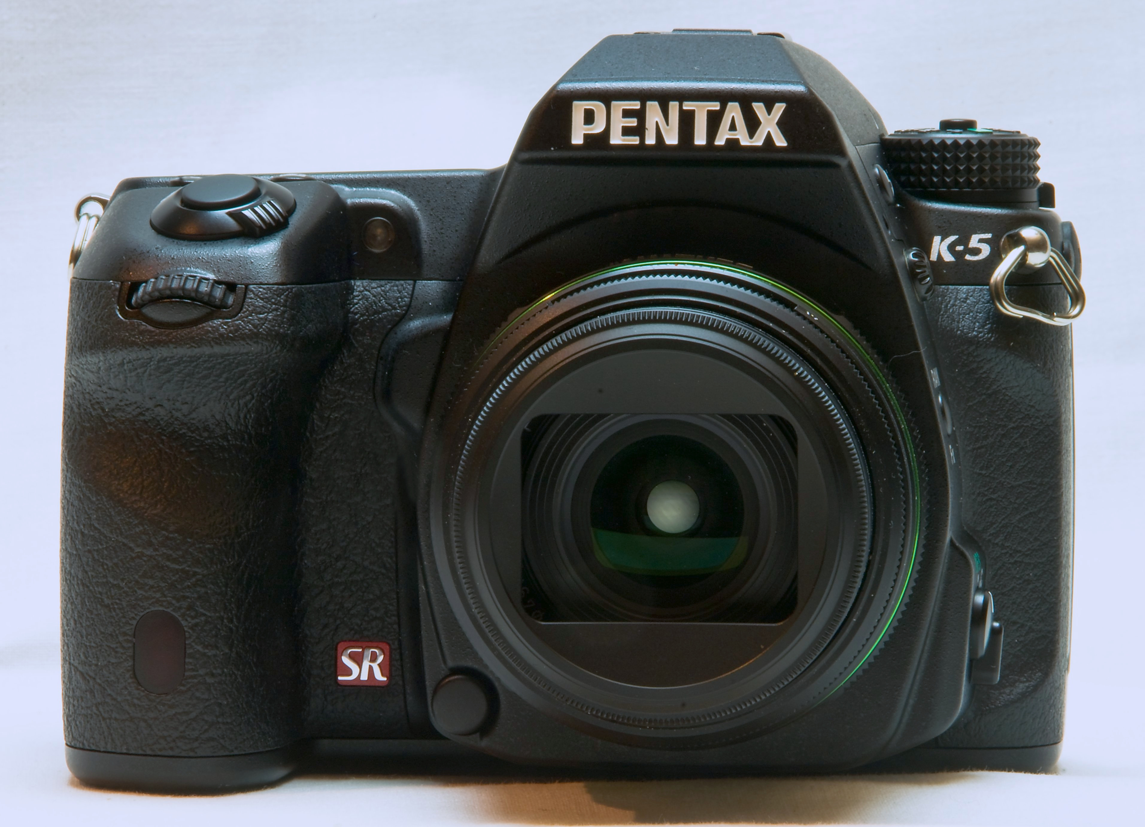 Pentax K-5 with the 21mm limited and lens hood